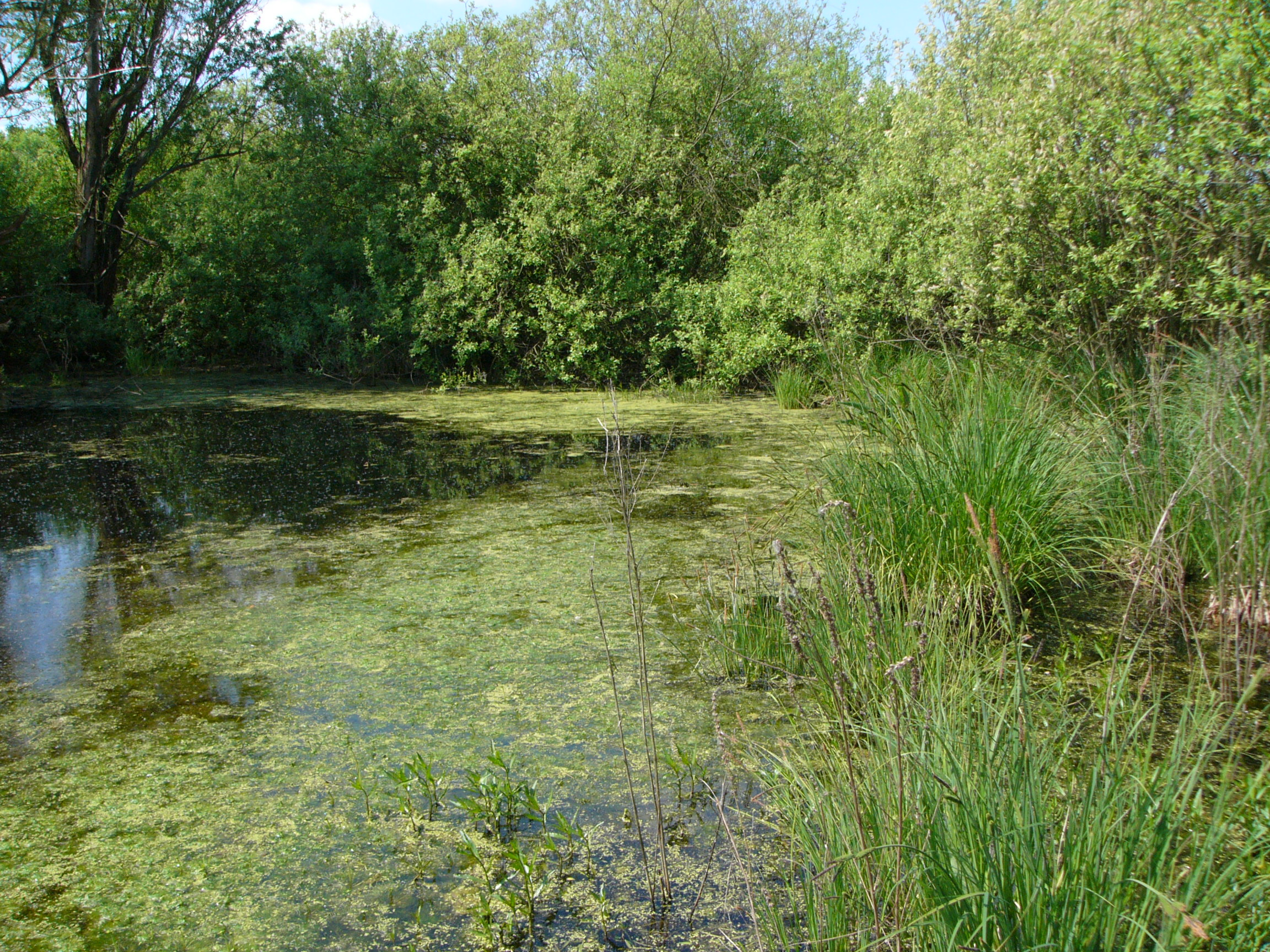 Nature Reserve Plané loučky in Litovelské Pomoraví protected landscape area in okres Olomouc (Czech Republic).